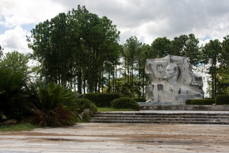 The Lenin Monument in Parque Lenin, Havana, Cuba (1984, sculptor - Lev Kerbel, architect - A.Quintana)